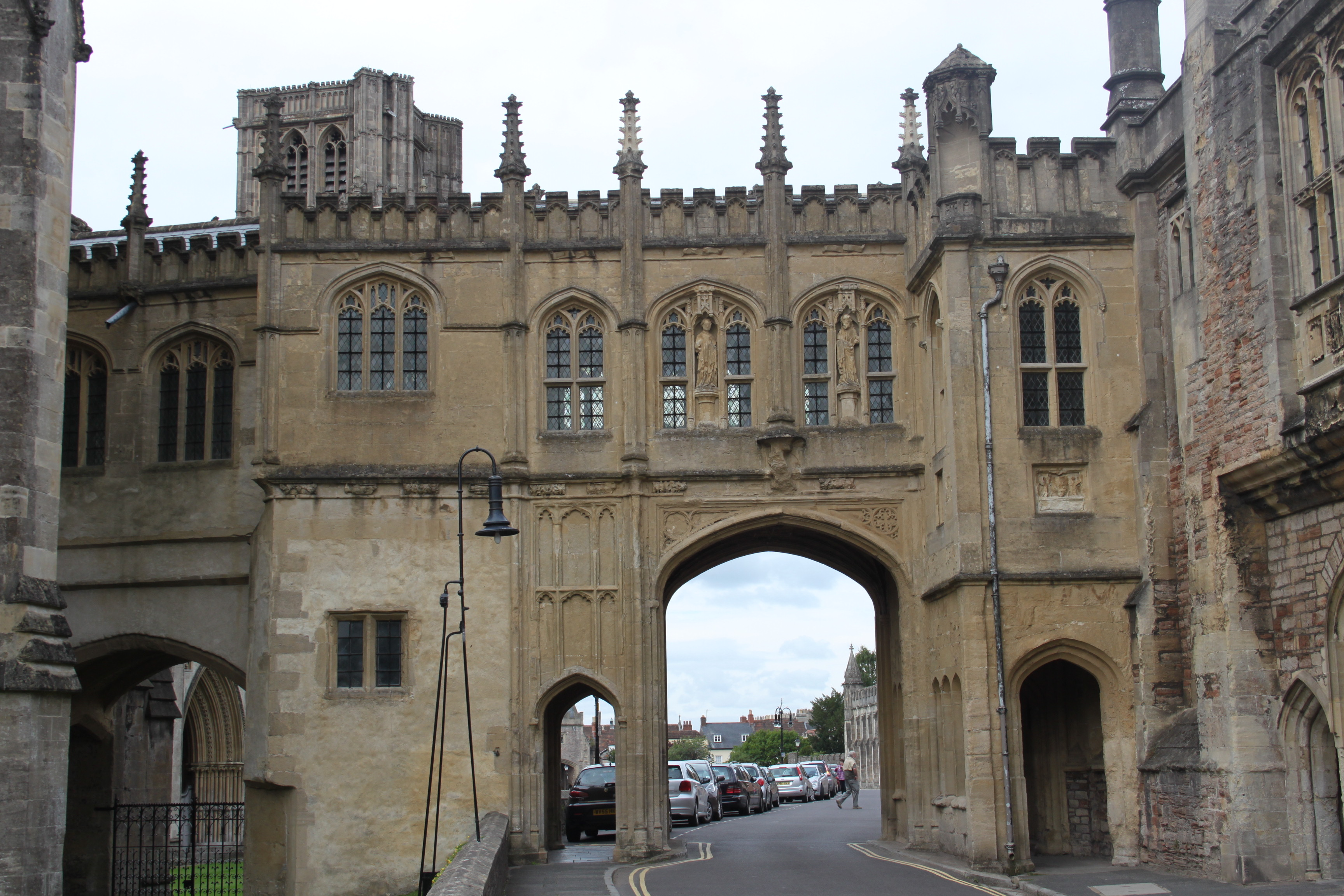 The chain gate with approach staircase